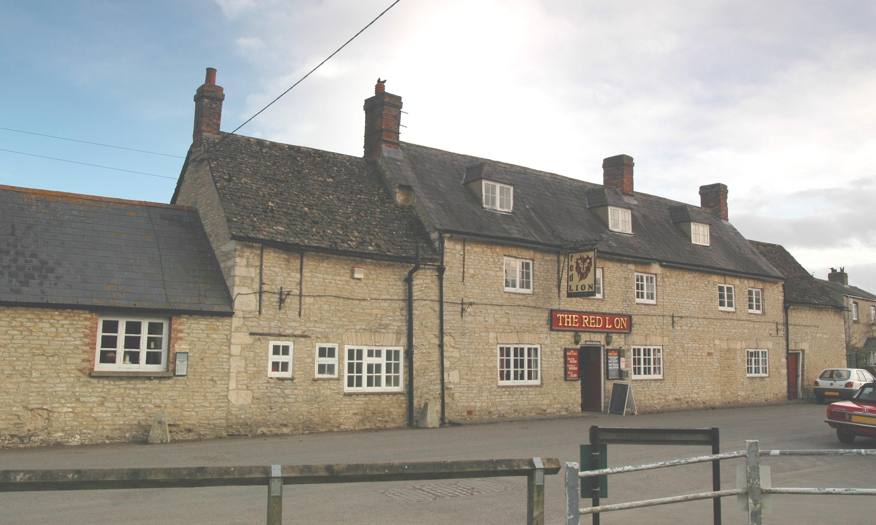 Red Lion public house, Wendlebury, Oxfordshire